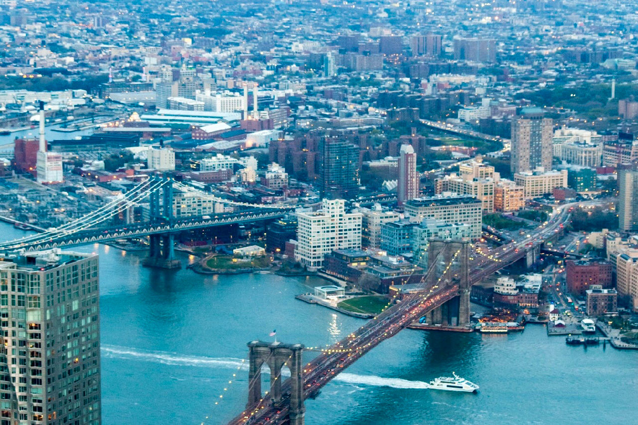 A photo of the DUMBO neighborhood in Brooklyn, taken from the observatory at One World Trade Center in Lower Manhattan. The photo shows both the Brooklyn and Manhattan bridges, as well as the Brooklyn Navy Yard in the distance.